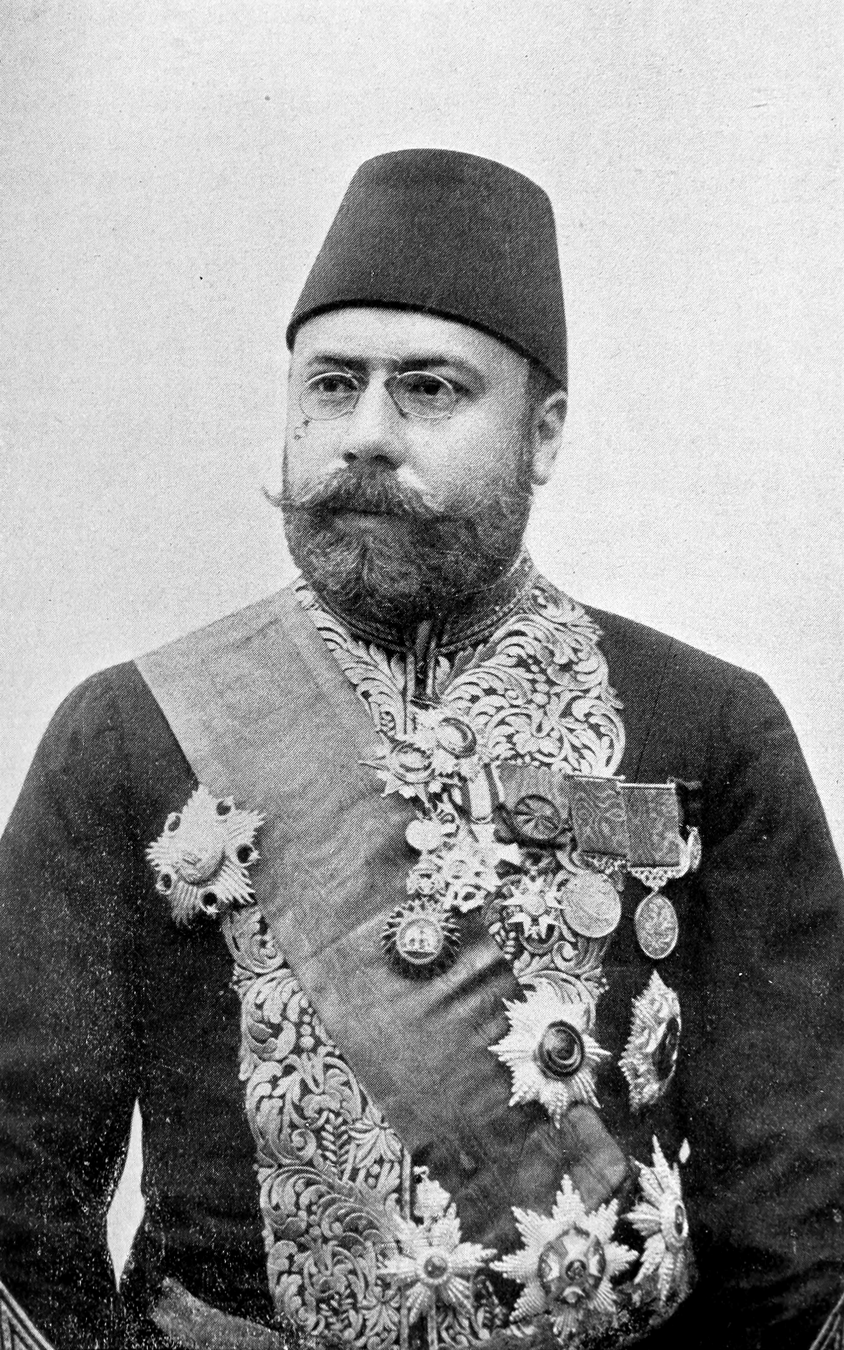 Ibrahim Hakki Pasha